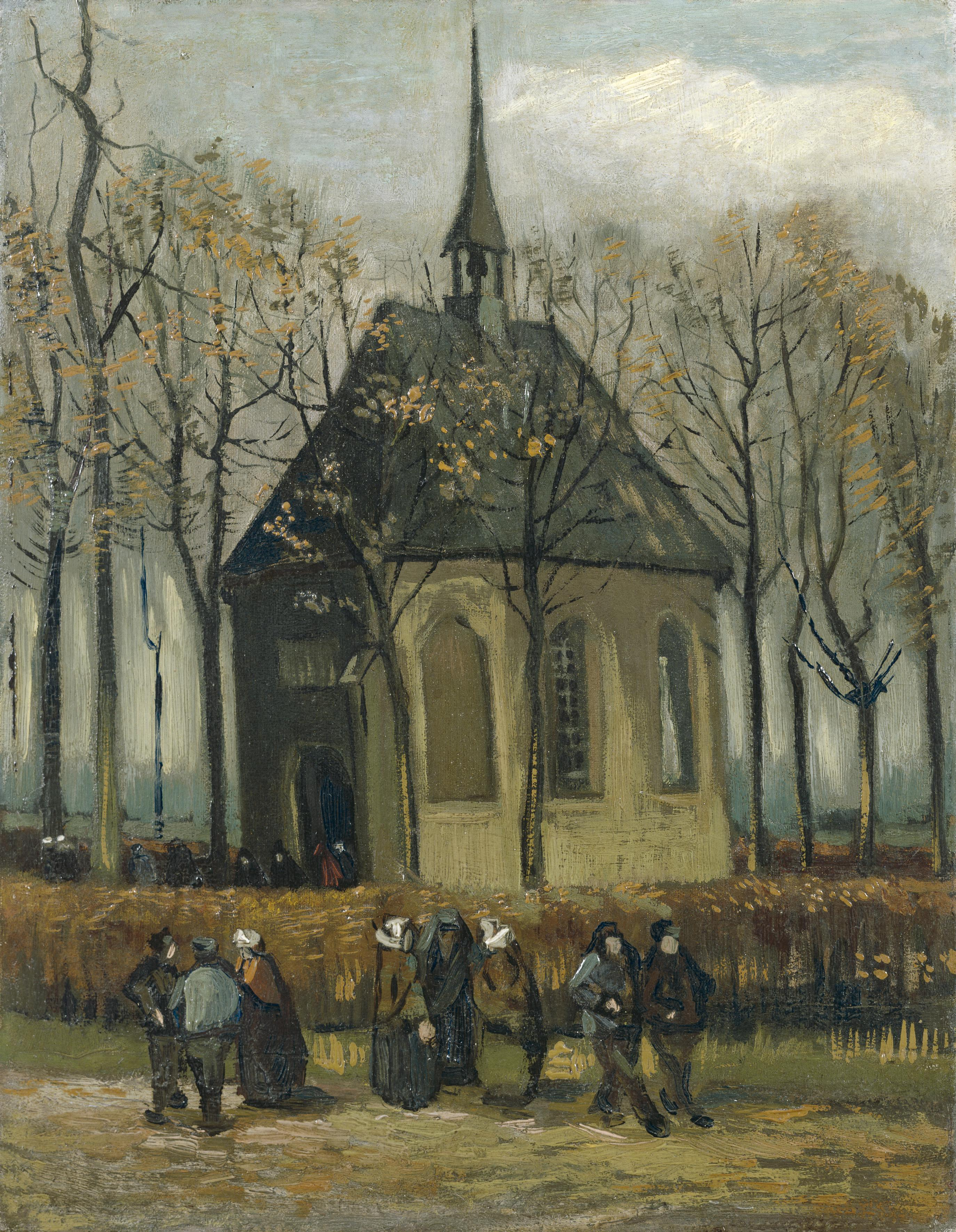 Painting by Vincent van Gogh, 1884 - 1885